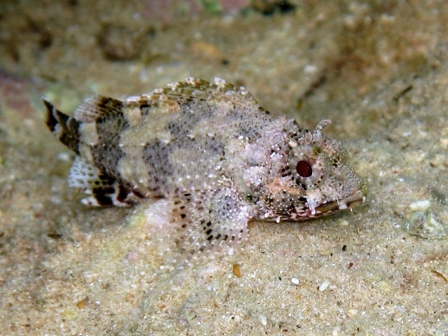 Scorpaena maderensis,Koufonissi ,Greece.